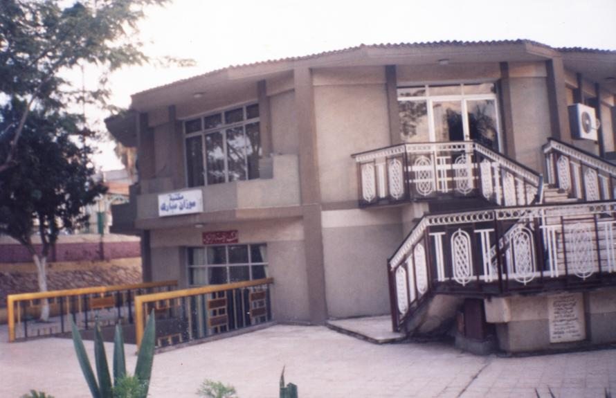 Suzanne Mubarak Library-Desouk